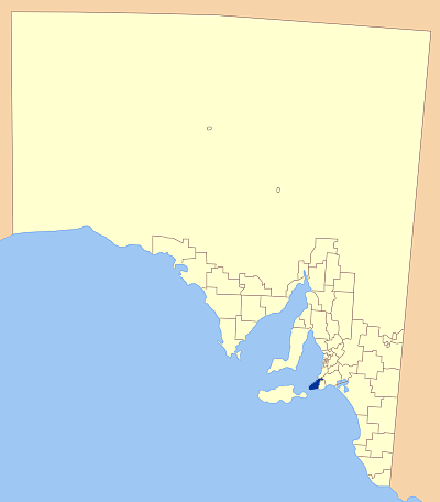 Modification of Astrokey44's original map found here: File:SA_LGA_blank.png Position of Coober pedy LGA